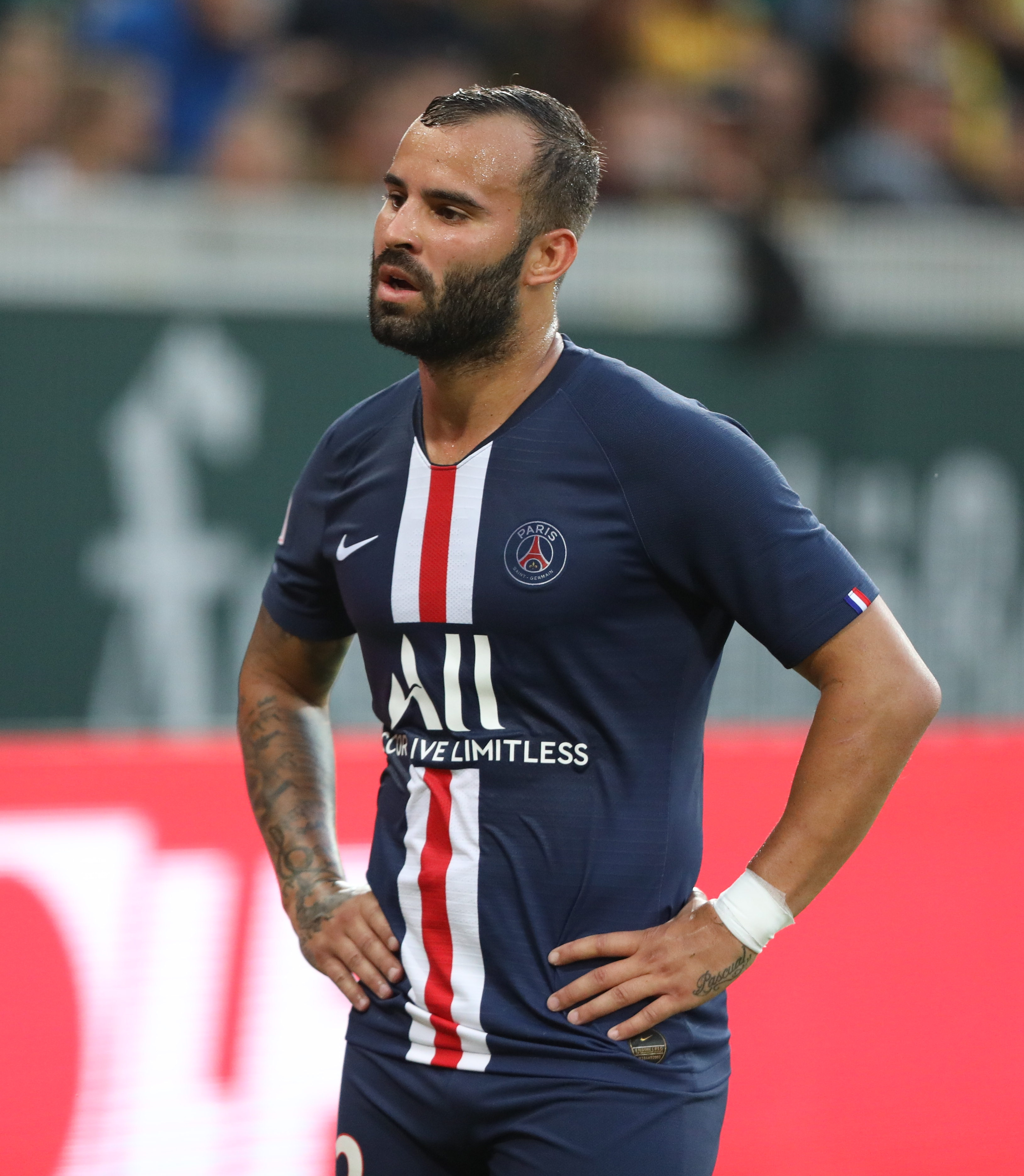 Test game, 17th July 2019: SG Dynamo Dresden vs. Paris Saint-Germain 1:6 (0:3)